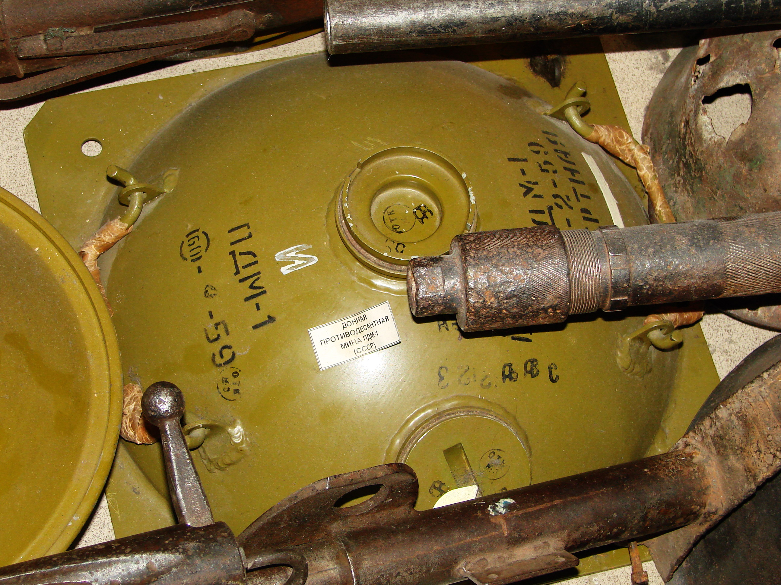 Soviet antilanding bottom mine PDM-1